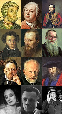 Collage for Spanish wikipedia.